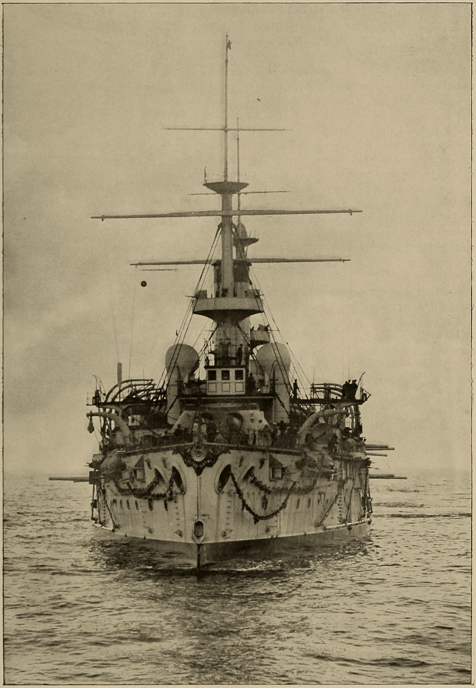 Cassier's Magazine of February 1898 had an article on page 275-292, written by Eustace Tennyson d'Eyncourt and titled The Japanese Battleship Yashima. It was accompanied by a number of illustrations, including this bow view of the vessel, on page 291.